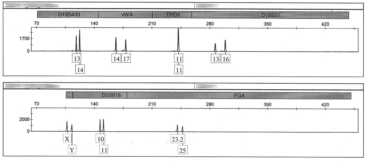 Str profile. Bottom two lines (yellow and red dyes) of a human genetic profile typed using Applied Biosystems' Identifiler kit when viewed in GeneMapper ID. The X-axis represents the length of the STR fragments, the Y-axis is the intensity of the signal. This is my own profile, so there are no privacy issues in uploading this image.